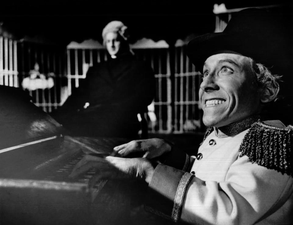 Photo of Jim Shane (in background) and Michael Dunn as Dr. Loveless from the television program The Wild Wild West. Dunn's character was a recurring villain in the series. This episode, "The Night of Miguelito's Revenge", marks the last appearance of the Dr. Loveless character on the program.